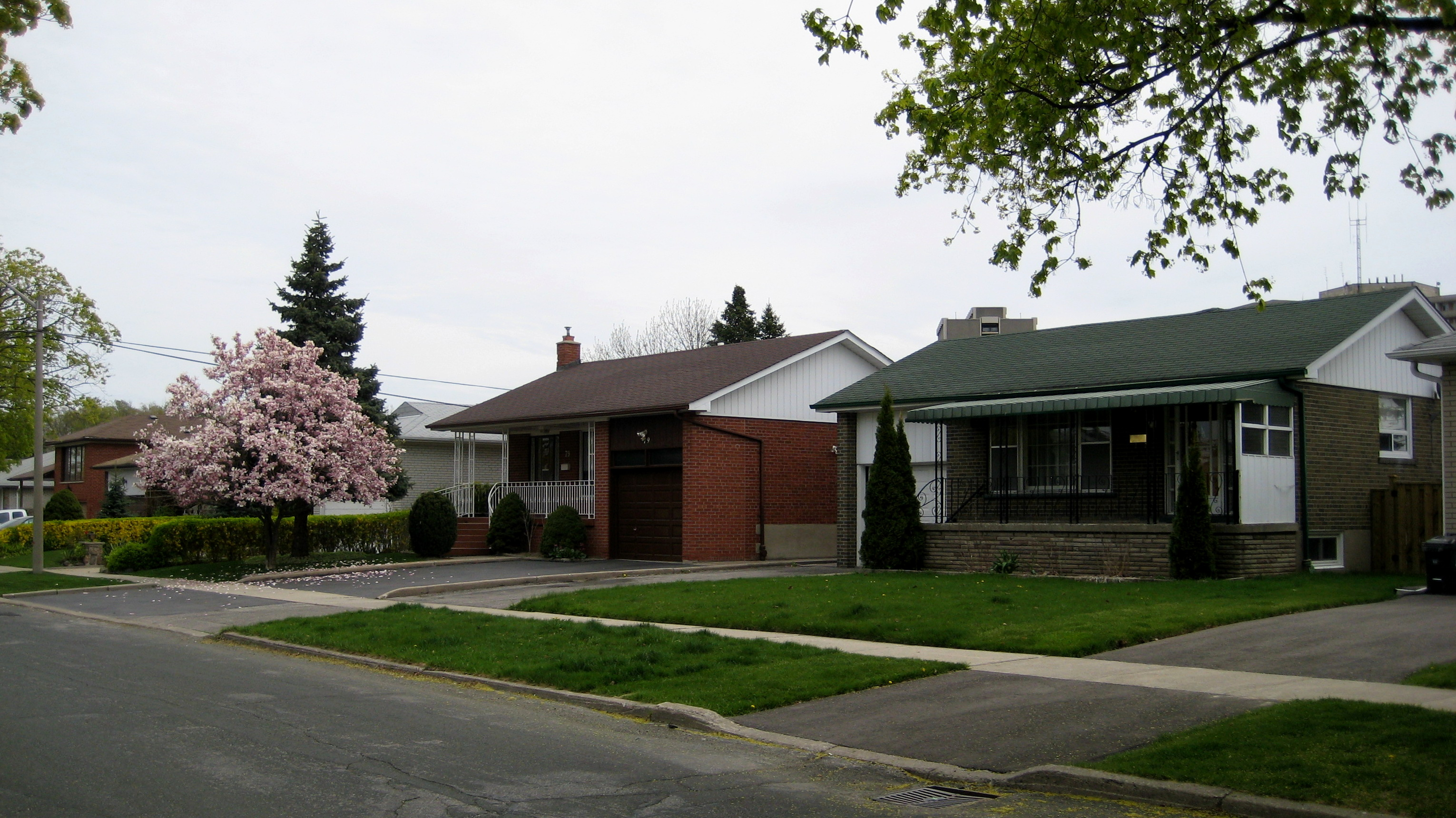 Houses in Richview